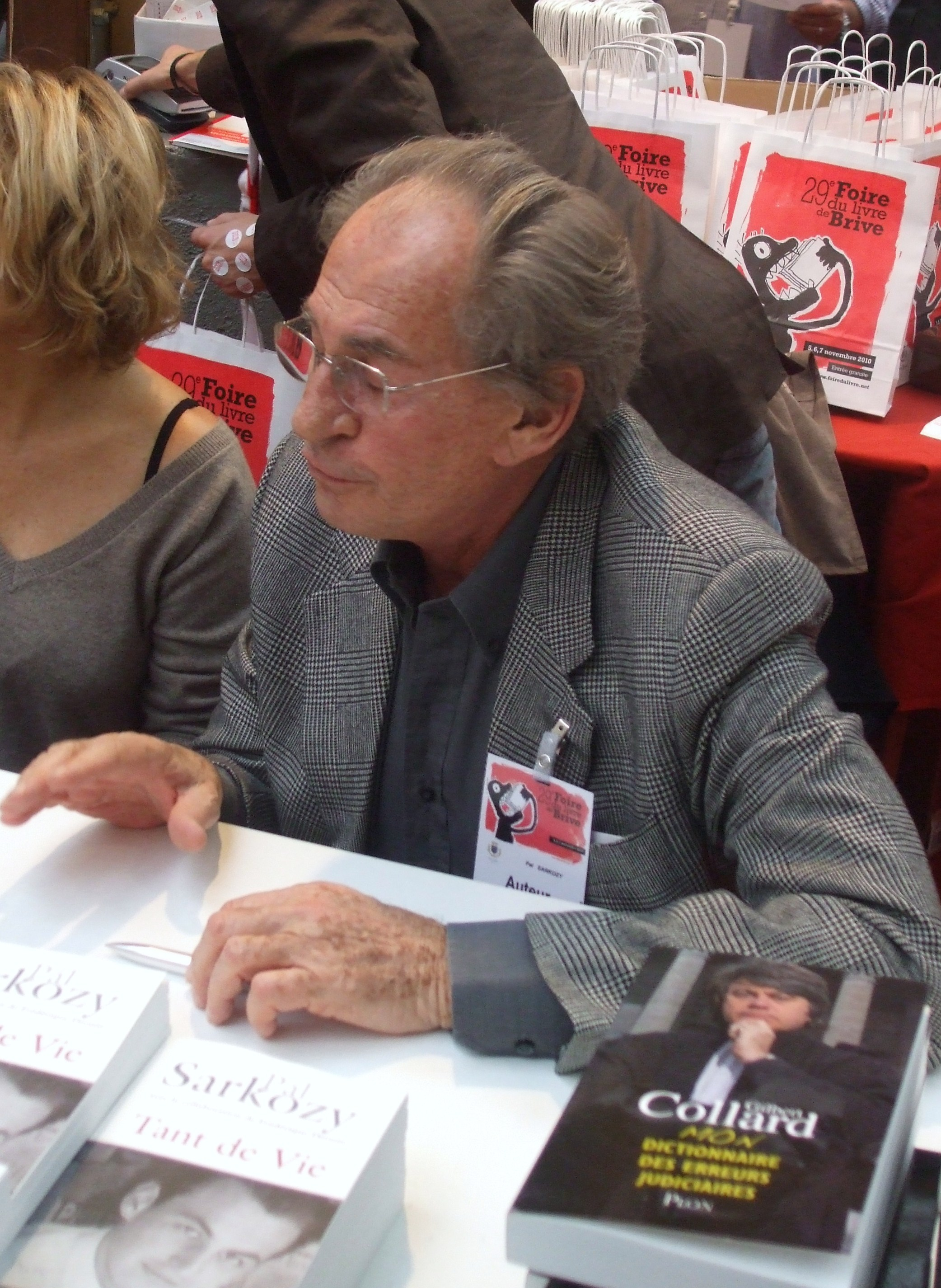 Pal Sarkozy, Brive la Gaillarde book fair, France, 2010 11 06